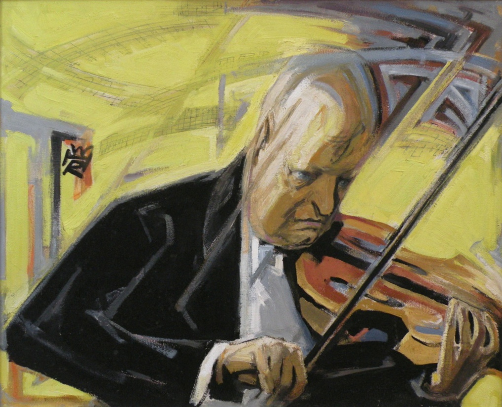 Paul Hindemith with viola